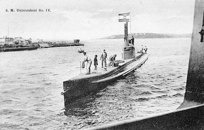 Austro-Hungarian submarine „His Majestys Ship Submarine U 4“ of type „U-3“